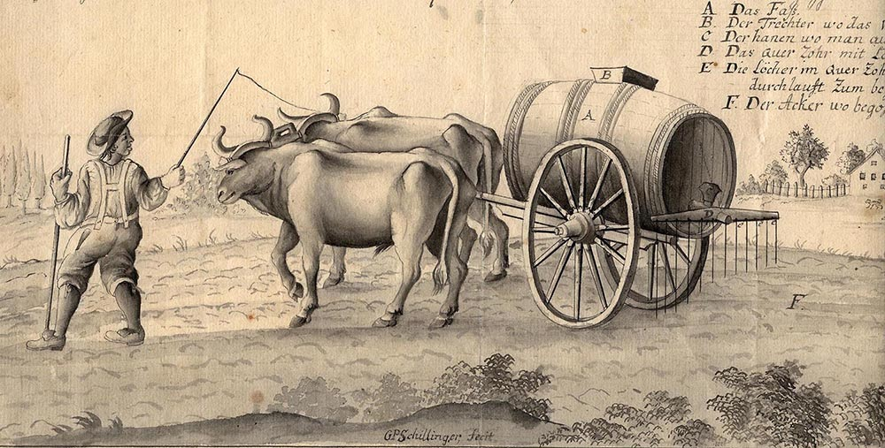 Liquid manure spreader as described by carpenter Georg Peter Schillinger (1698–1774) from Öhringen.